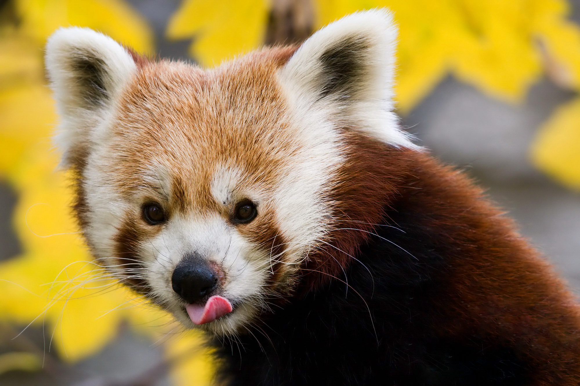 Red Panda, picture taken in Zoo Schönbrunn, Vienna, Austria